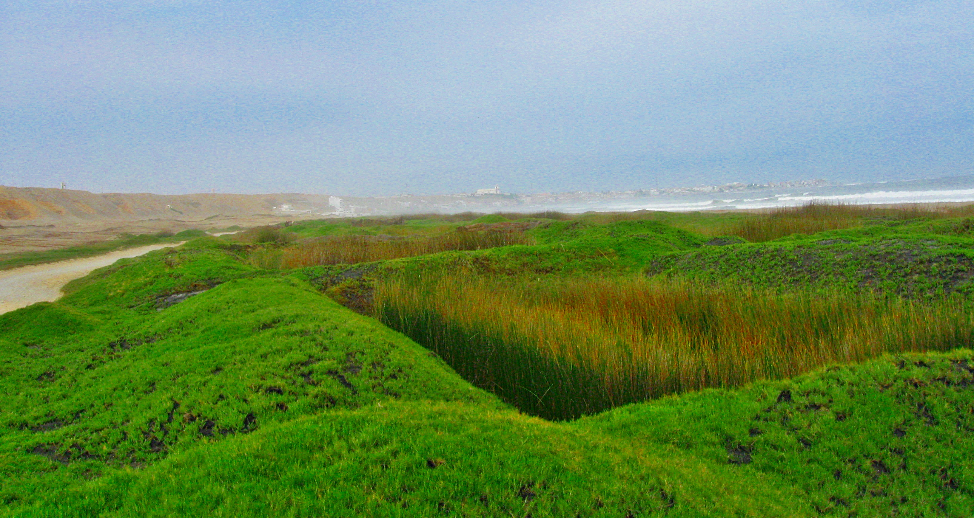 Humedales de Huanchaco